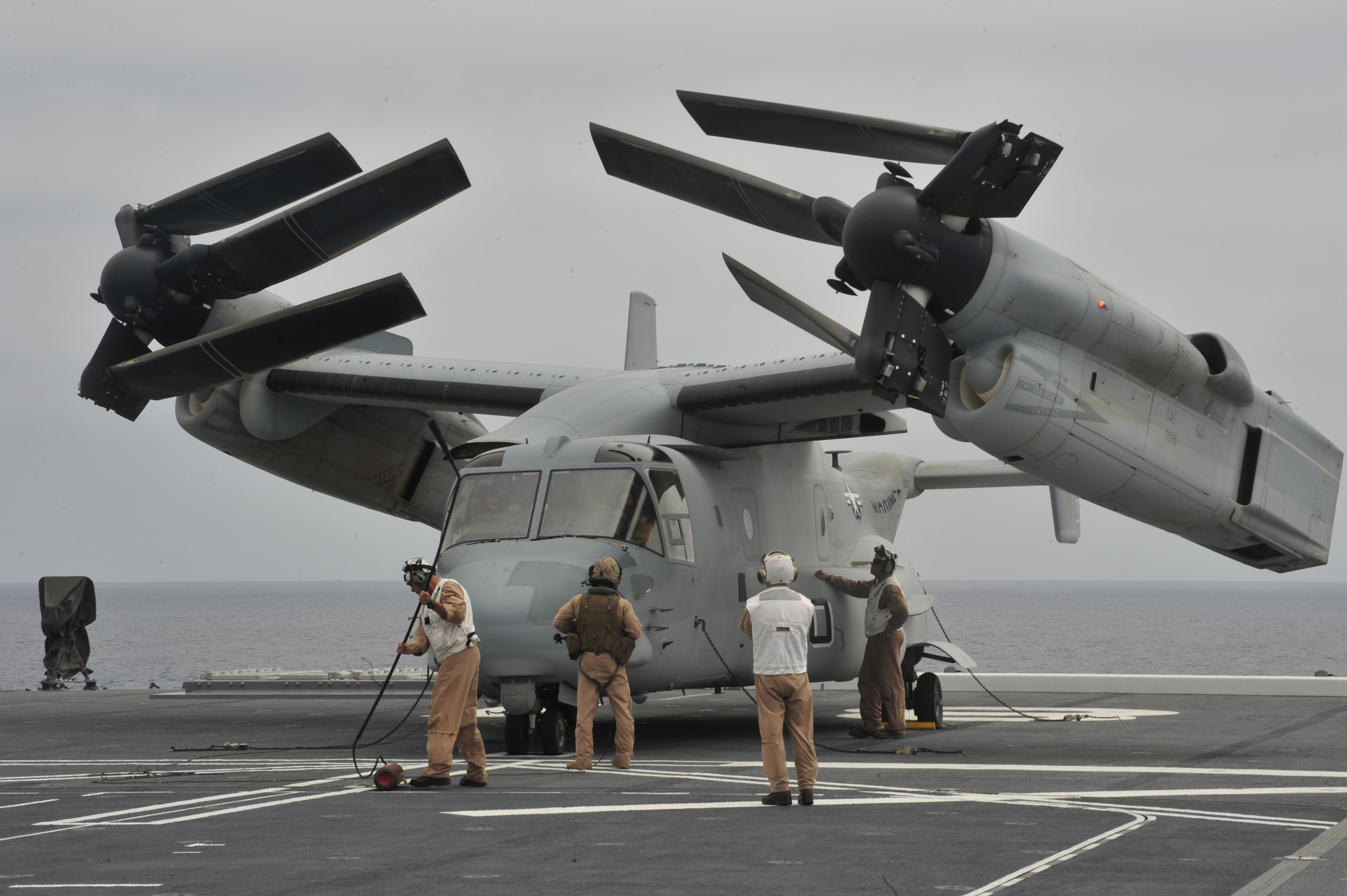 130614-N-BU440-473 PACIFIC OCEAN (June 14, 2013) U.S. Marines inspect an MV-22 Osprey tilt-rotor aircraft after landing on the Japan Maritime Self-Defense Force helicopter destroyer JS Hyuga (DDH 181) during amphibious exercise Dawn Blitz. Dawn Blitz is a scenario-driven exercise led by the U.S. 3rd Fleet and 1 Marine Expeditionary Force that will test participants in the planning and execution of amphibious operations through a series of live training events. (U.S. Navy photo by Mass Communication Specialist Seaman Molly A. Evans/Released)